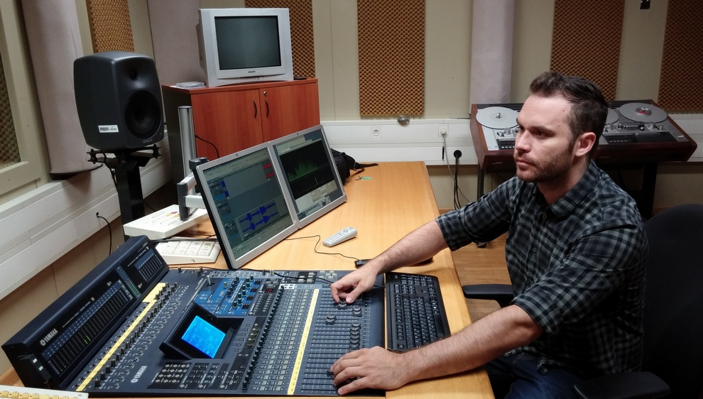 Jeronim Szabolcs Marić in one of the recording studios at the Croatian Radio (2015)